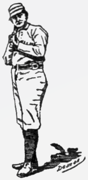 An illustration of baseball player Billy O'Brien from the May 23, 1893, edition of The Nashville American